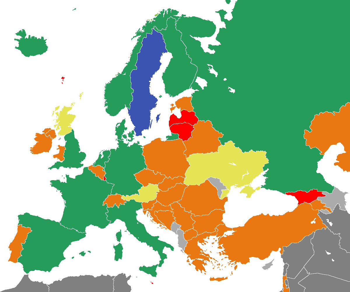 UEFA Women's Championship 2013 – Qualification